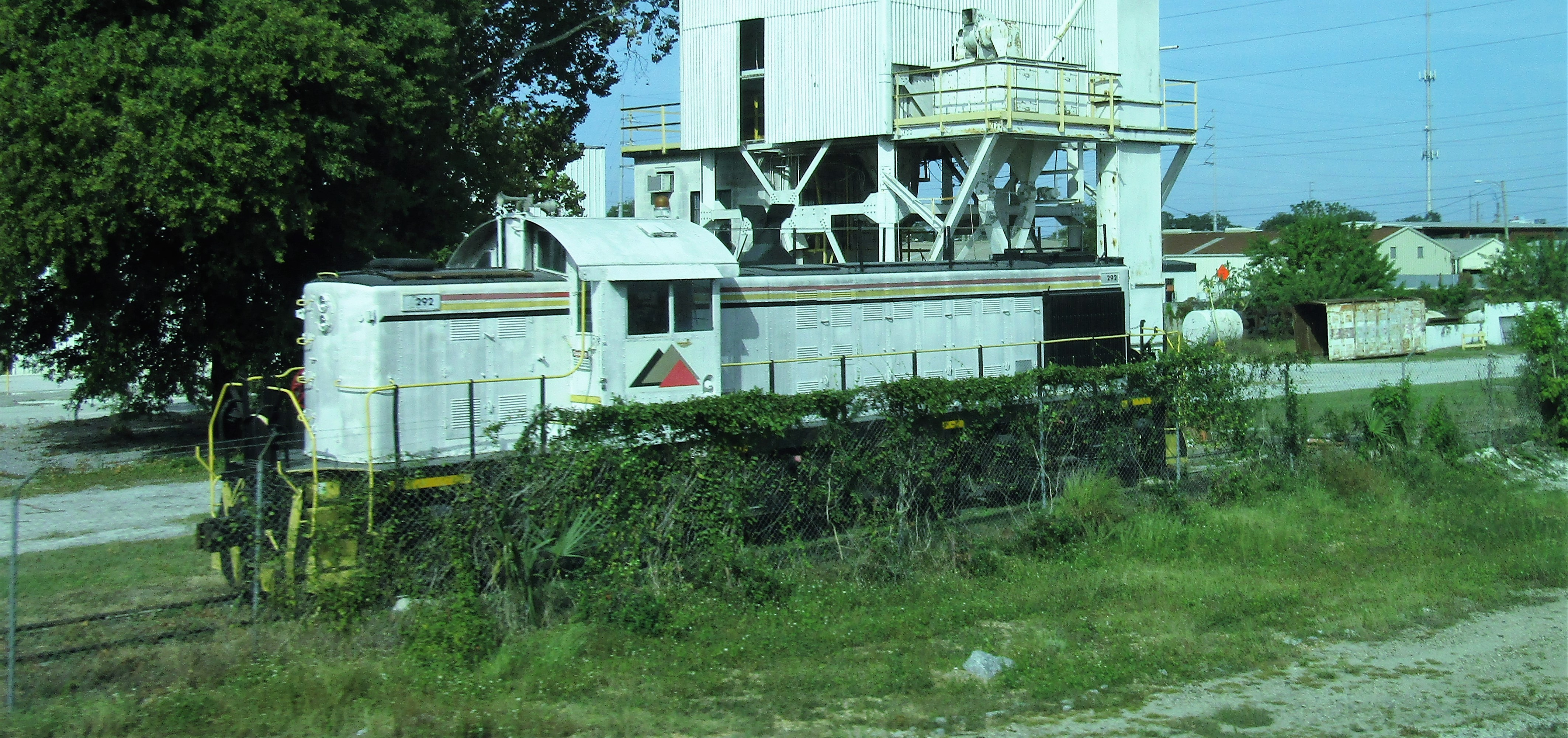 Locomotive ALCO RS1 292 CYXX - Conrad Yelvington Distributors in Orlando-FL